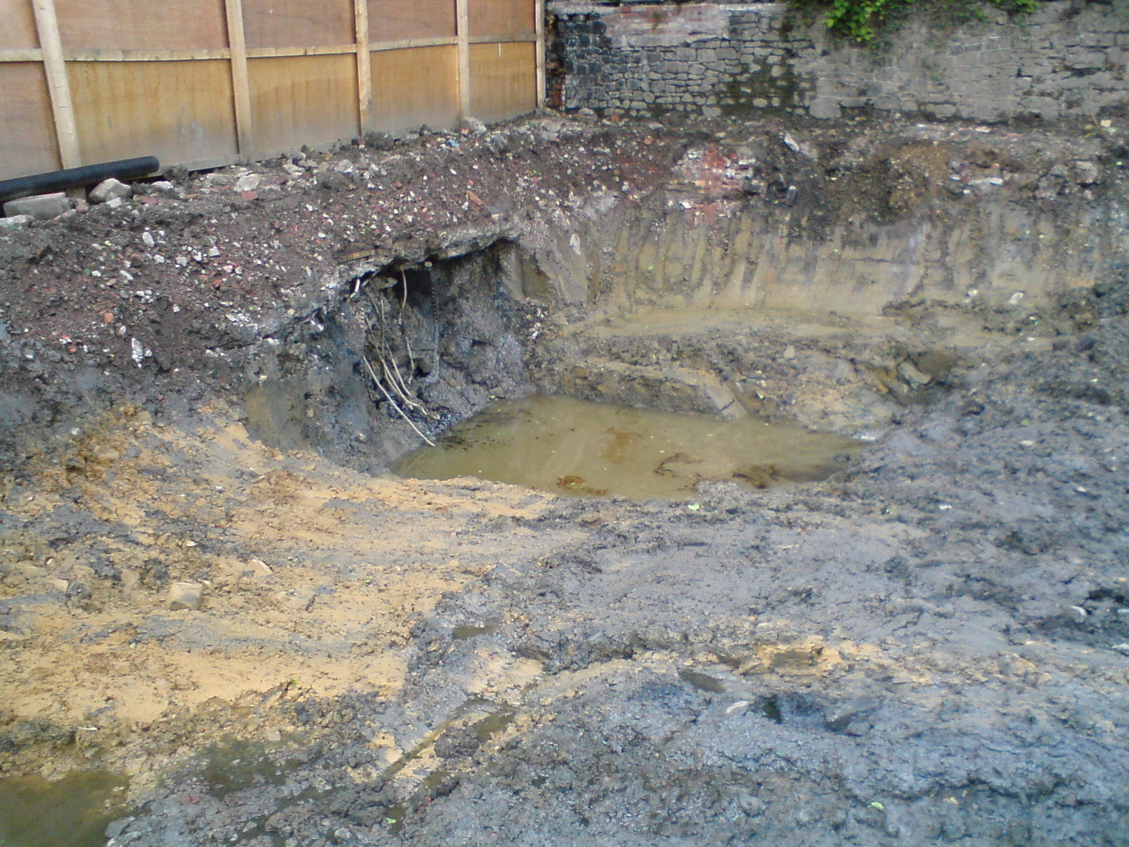 Soil contamination caused by underground storage tanks containing tar. Encountered during remediation works at a disused gasworks.